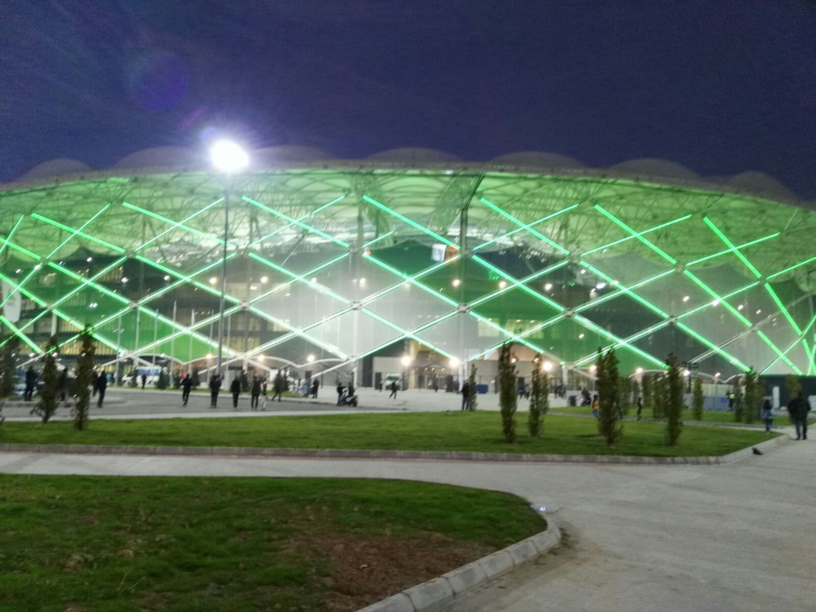 New Sakaryaspor Stadium, in Adapazari, Sakarya, Turkey